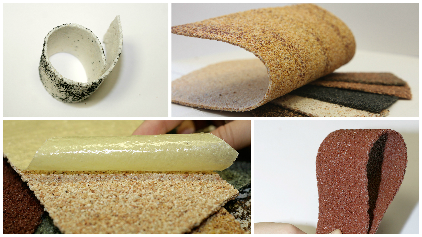 Water-resistant; Frost-resistant; UV resistant; Fire resistant